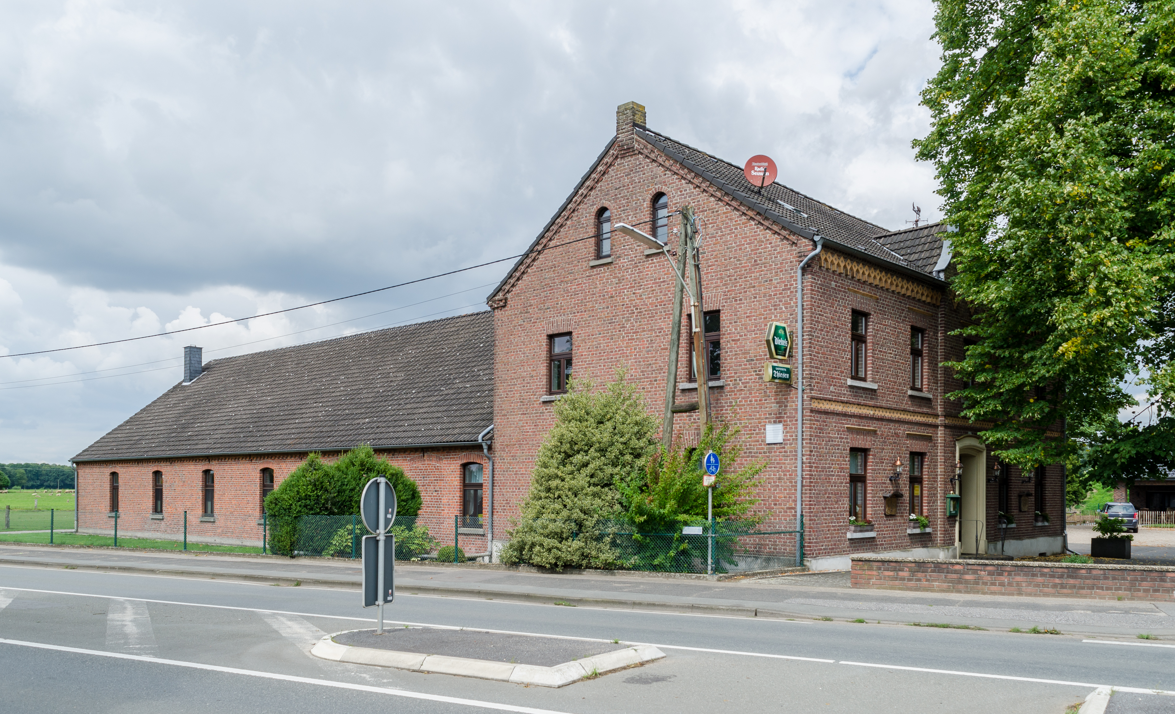 Alpen (North Rhine-Westphalia, Germany) – district Bönninghardt – Restaurant Thiesen